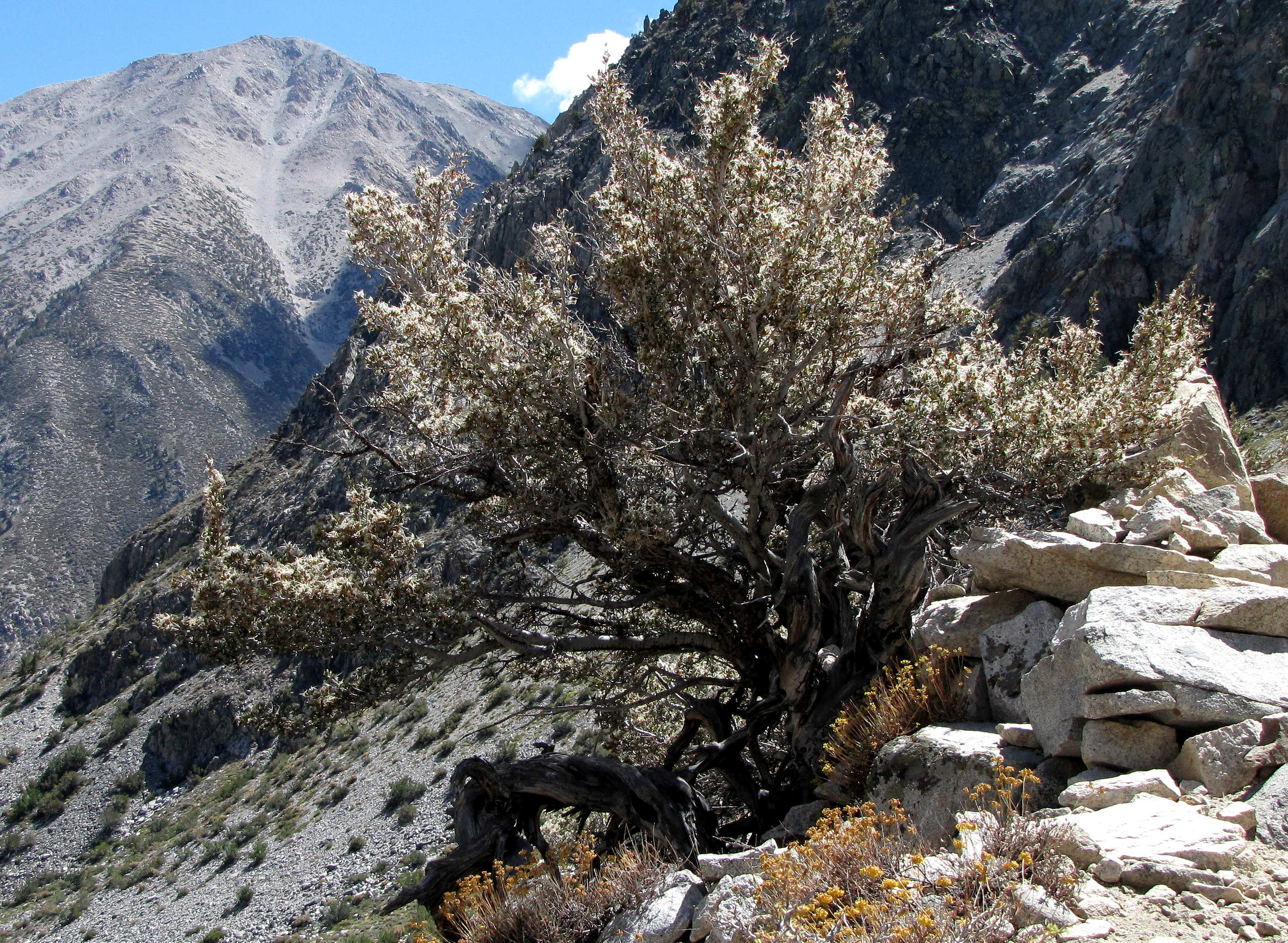 Curl-leaf mountain mahogany - Cercocarpus ledifolius Location: About 1.5 miles from the trail head of the Big Pine Creek North Fork trail, John Muir Wilderness, CA, USA